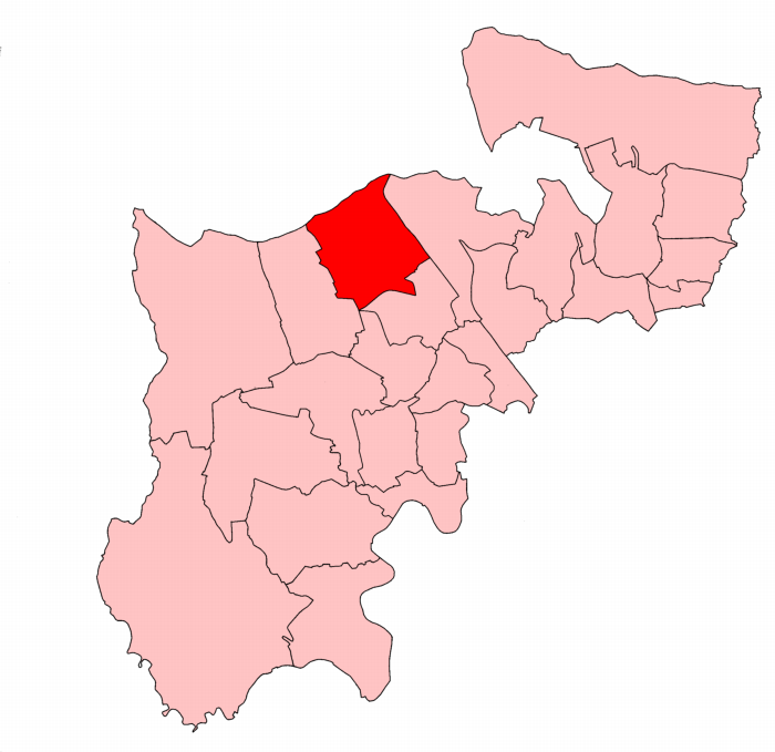 A map of Harrow East constituency within Middlesex, as it existed from 1945 to 1950.